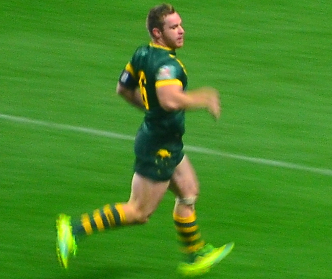 Mick Morgan